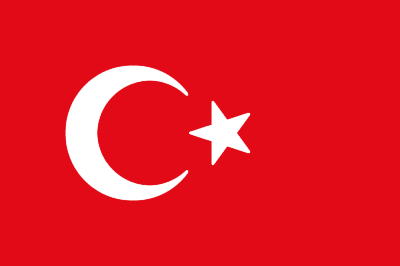 Late Ottoman flag (1844-1922) based on historic documents such as: and (photo from 1914 - highly reliable) (postcard photo from 1920 - artificially coloured in that epoch) (postcard photo from 1920 - artificially coloured in that epoch) (postcard drawing from 1914 - arbitrary) Note: The last flag of the Ottoman Empire (1844-1922) was practically identical to the present-day flag of the Republic of Turkey, except for the difference that the crescent and star were slightly "fatter" and "less sharp" on the edges.